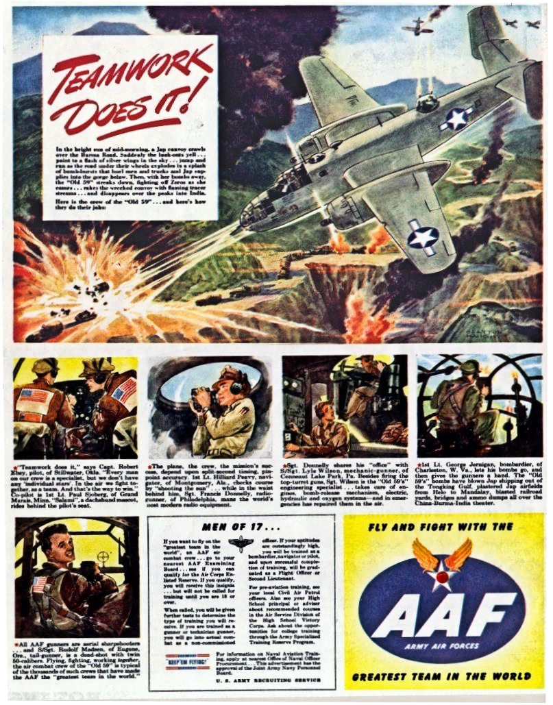 1944 Army Air Forces Recruiting Ad focusing on the CBI